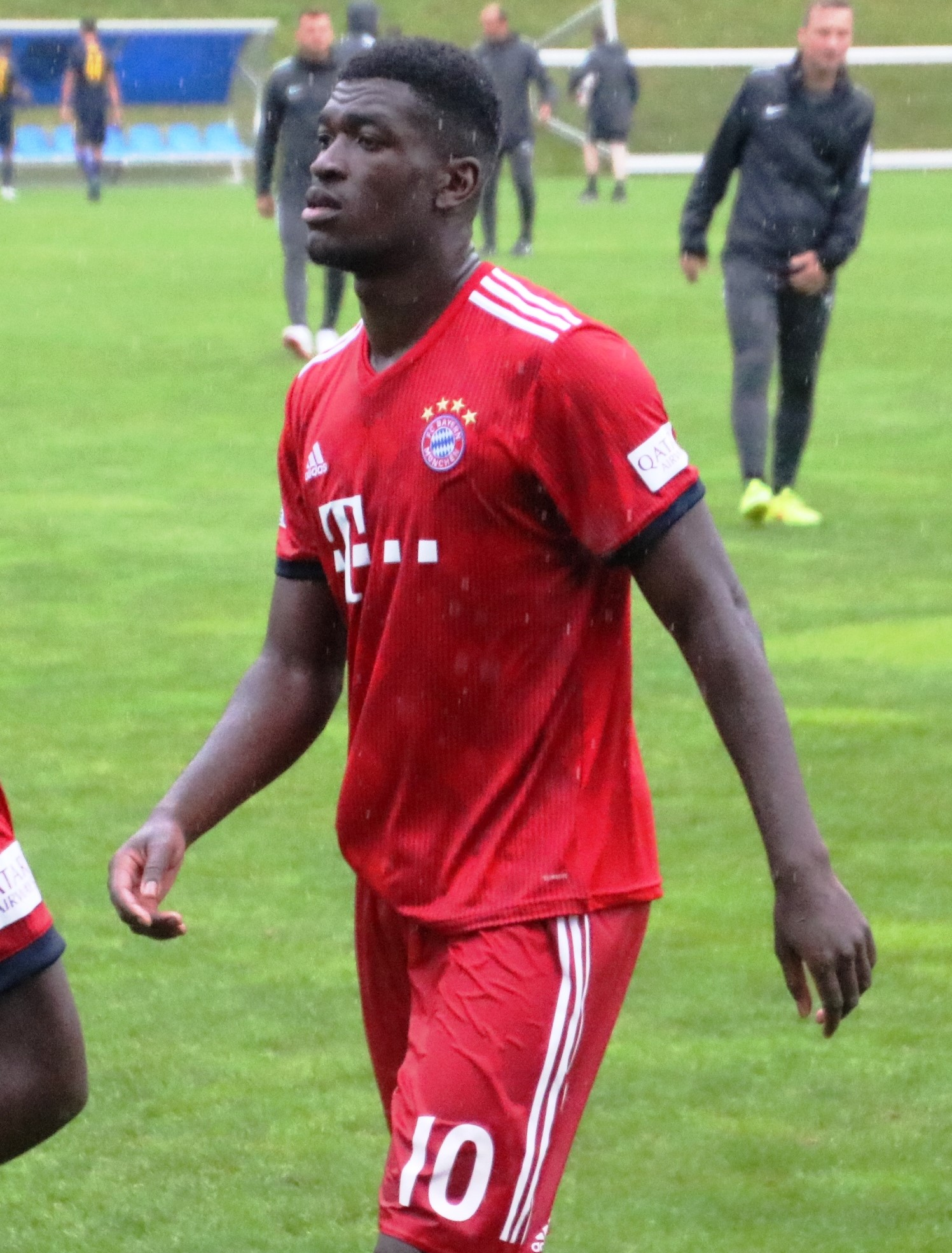 preseasonmatch 2018/19